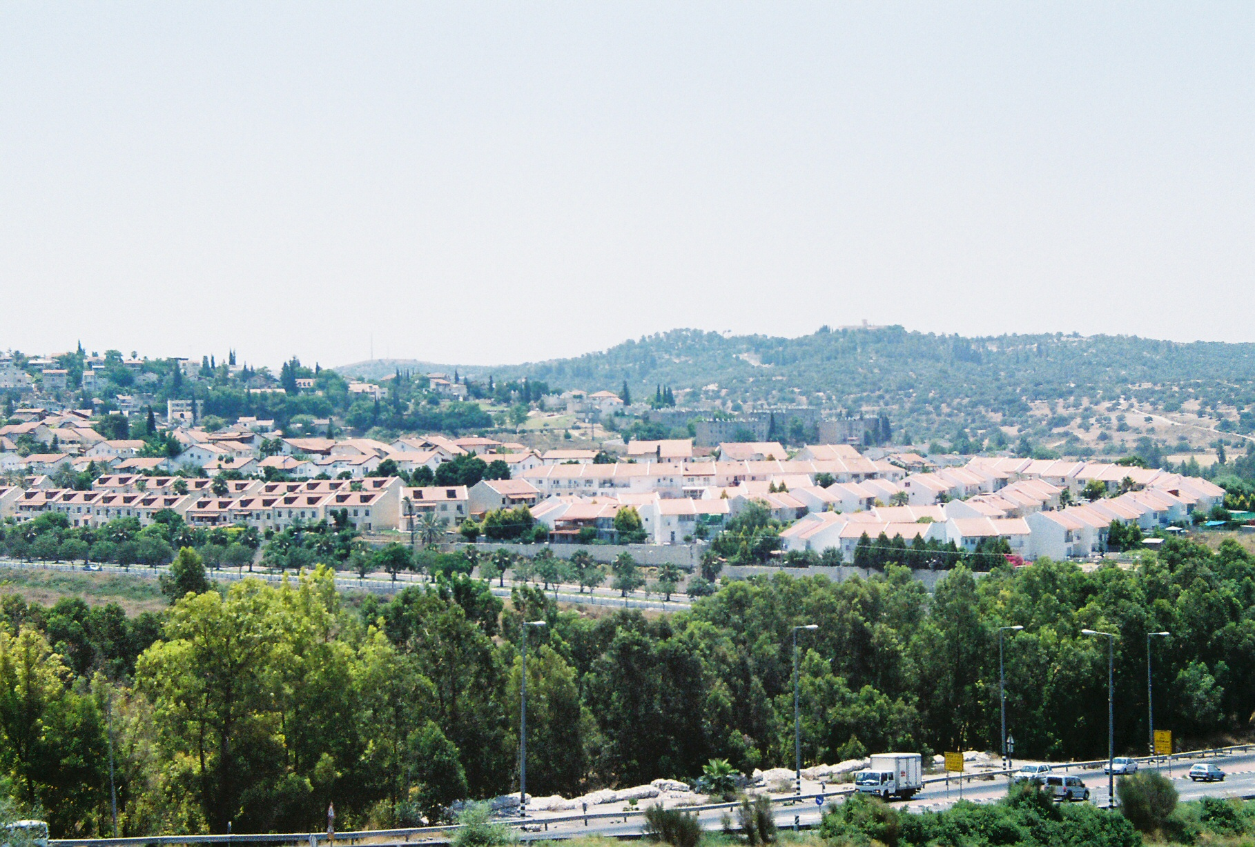 Photo of the modern city of Bet Shemesh from Tel Beth-Shemesh, June 2006.